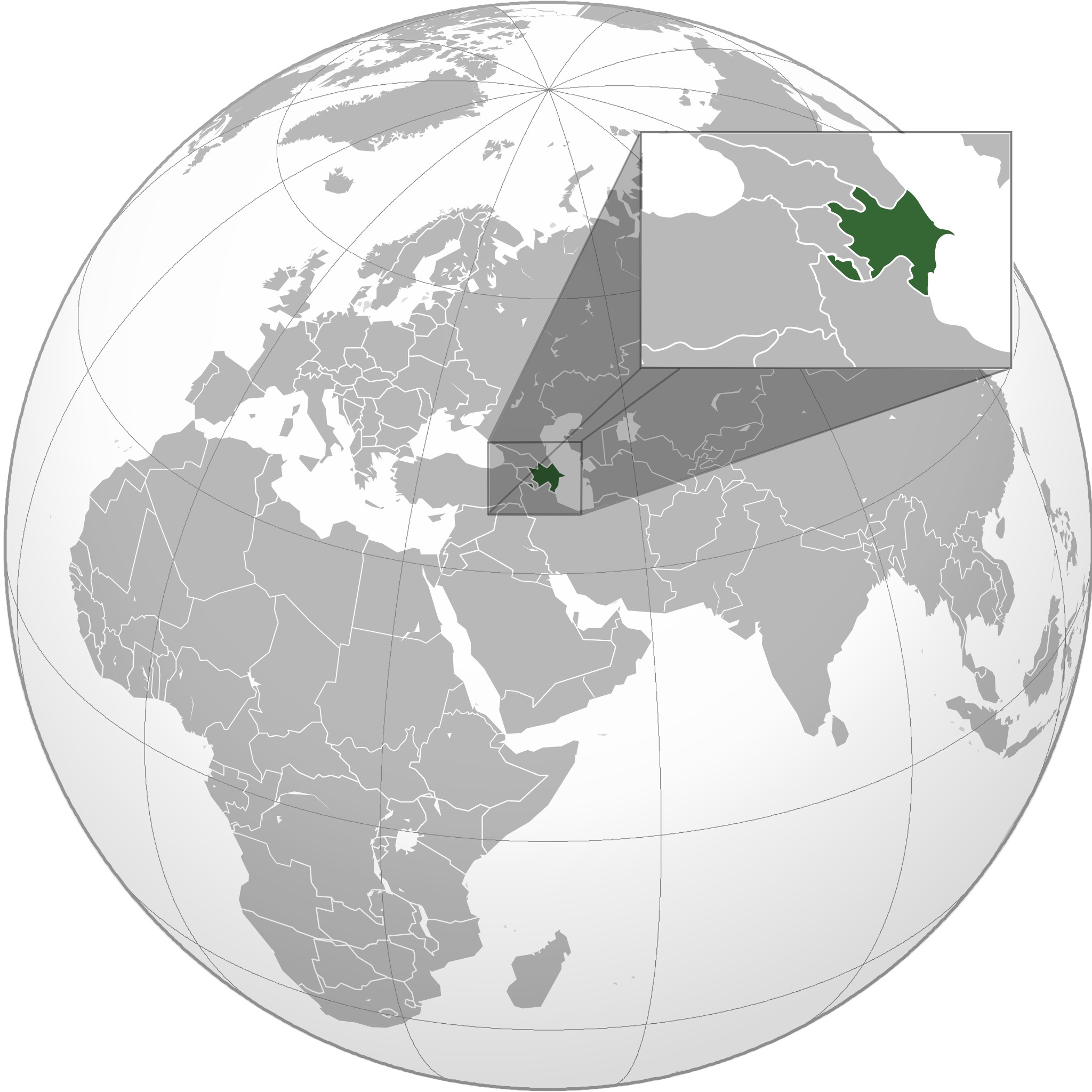 Orthographic Projection Map of Azerbaijan.